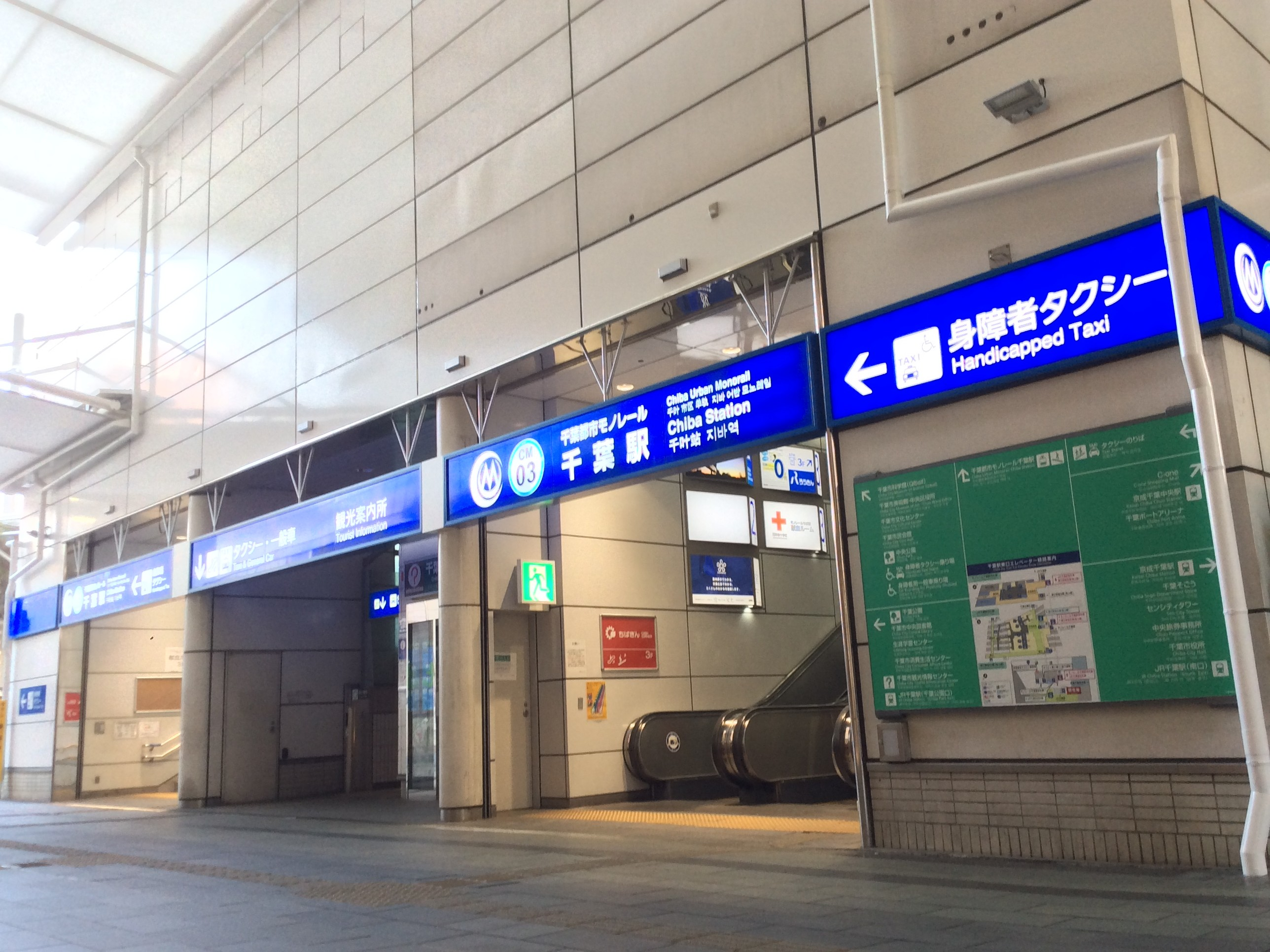 This main entrance is on the 1st floor, standing opposite JR Chiba Station East Entrance. The monorail gate concourse is to the right, on the 3rd floor.